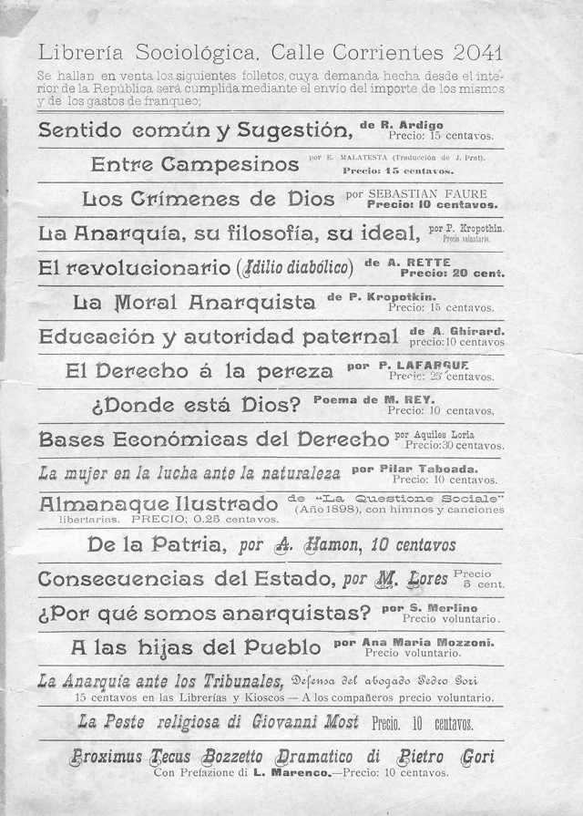 back cover, Ciencia Social, anarchist argentine magazine, 1898